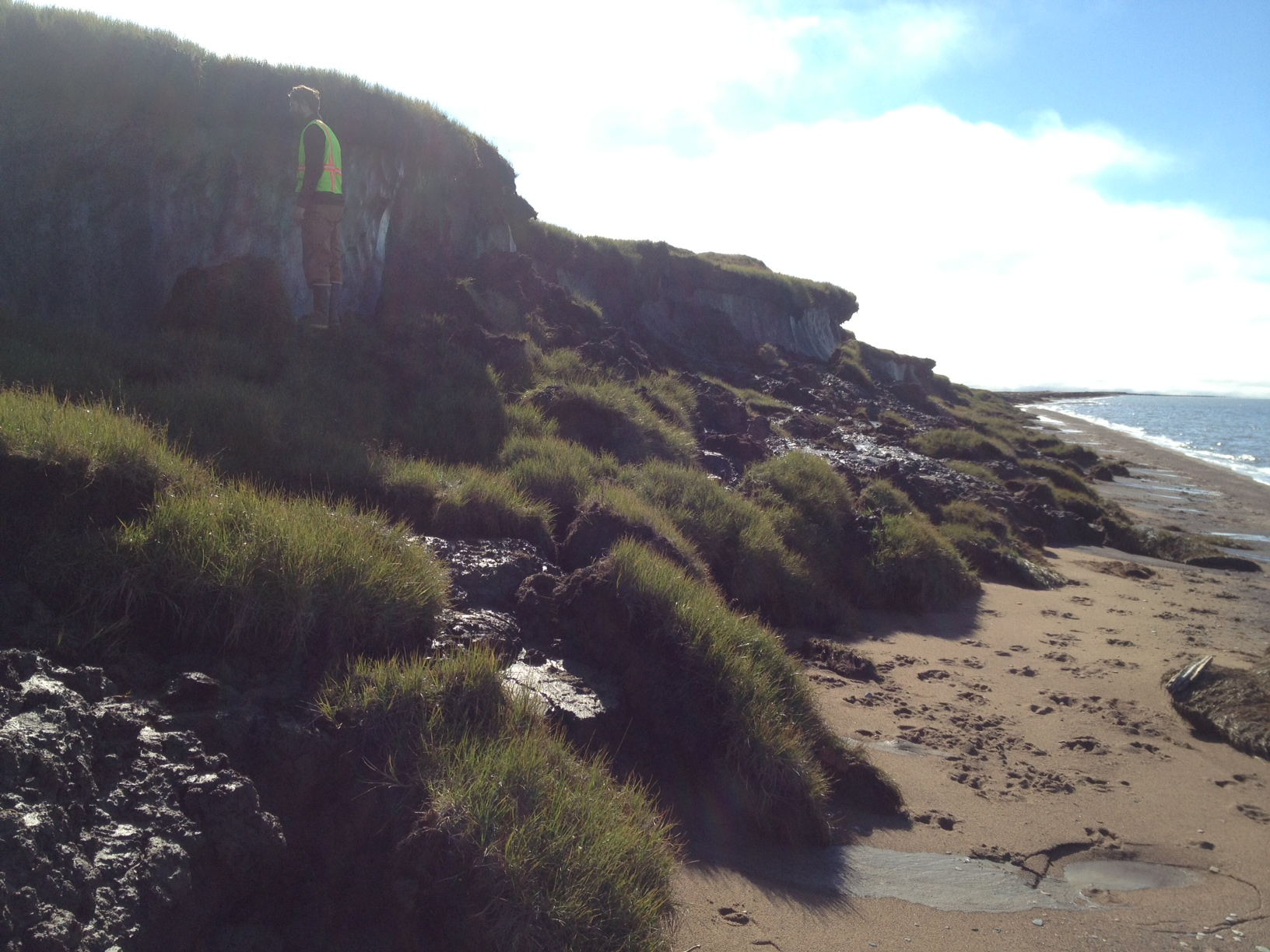 Rapidly thawing Arctic permafrost and coastal erosion on the Beaufort Sea, Arctic Ocean, near Point Lonely, AK.